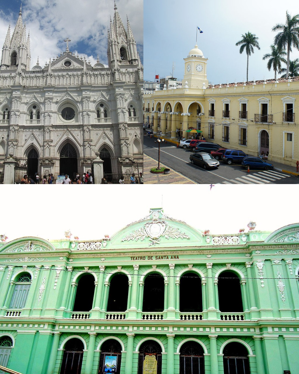 Photomontage of the city of Santa Ana, ES